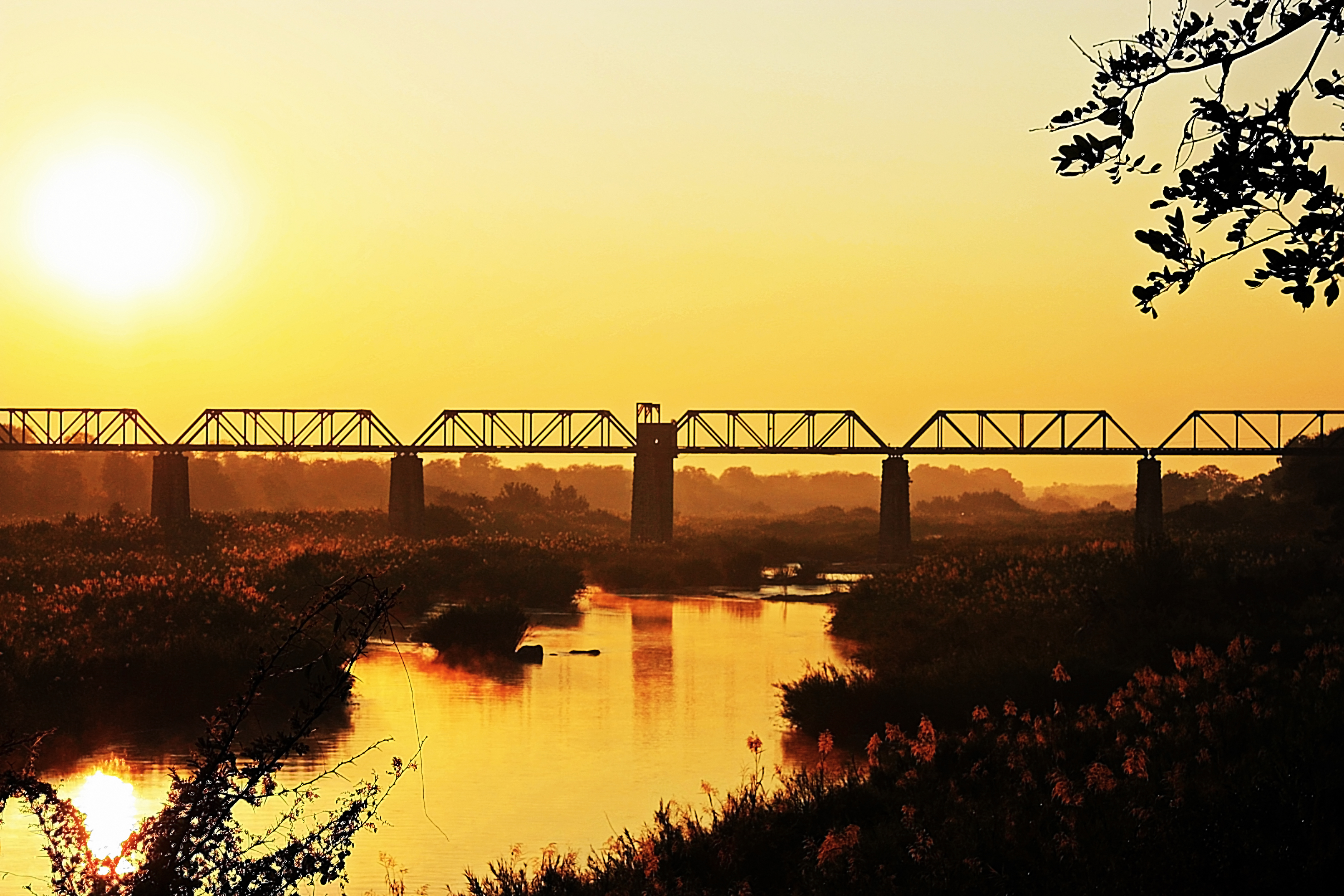 Sunrise on a winter day over the Skukuza main camp, Kruger National Park, South Africa